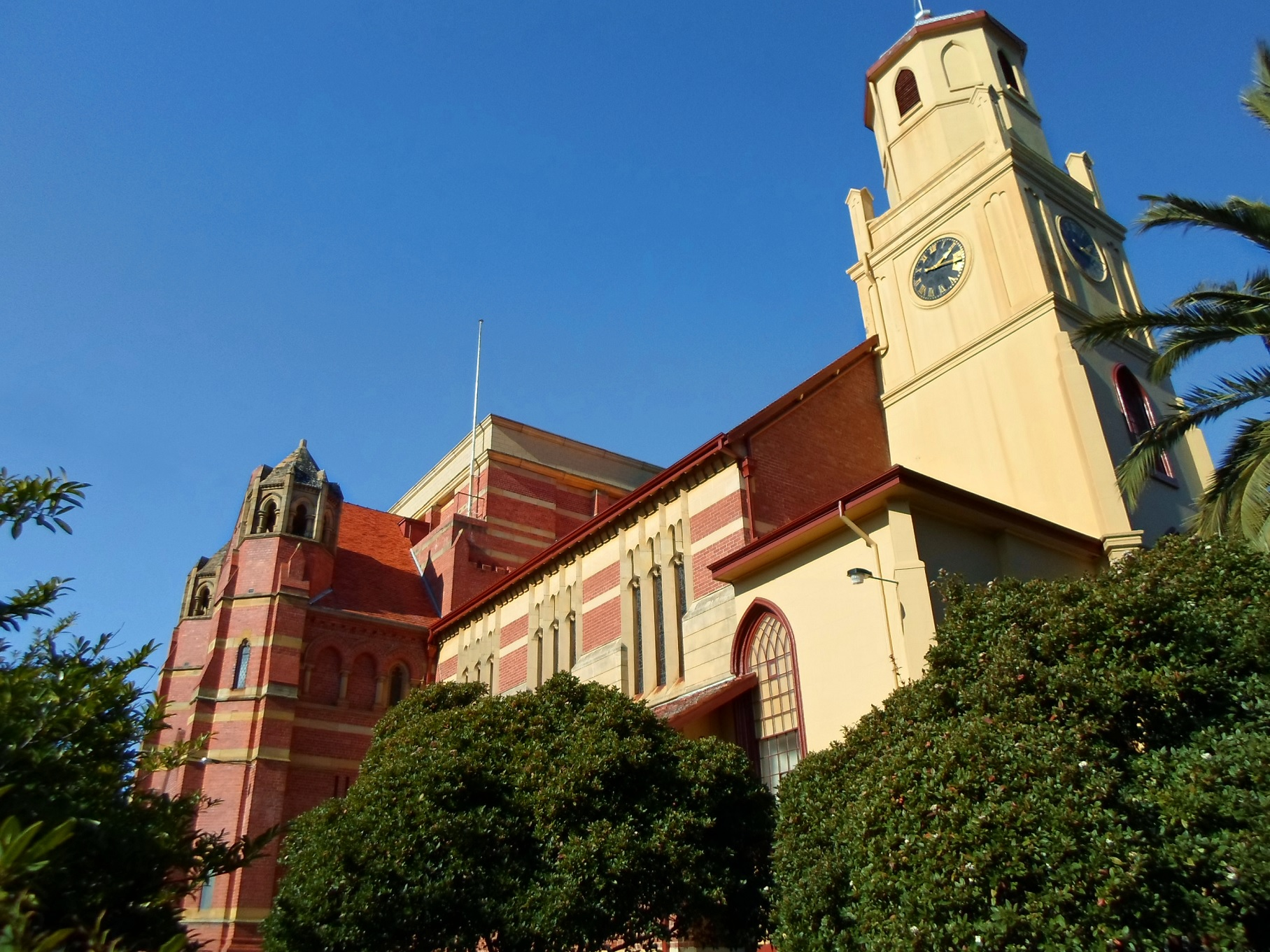 Photograph of St John's Anglican Church, the third oldest surviving church in Australia, from the church grounds showing original 1824 church with later 1900s extensions.